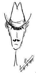 Caricature of Arturo Toscanini, by Enrico Caruso